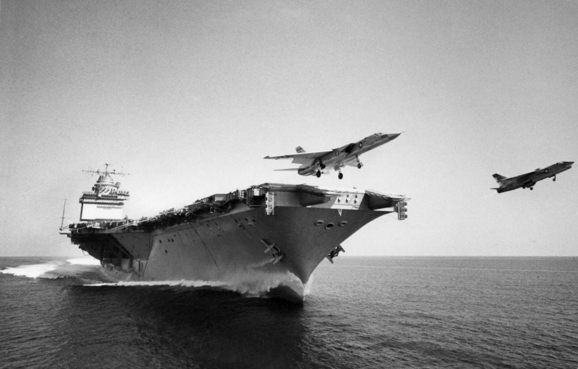 A U.S. Navy Vought F8U-1 Crusader from Fighter Squadron VF-62 Boomerangs and a North American A3J-1 Vigilante of Heavy Attack Squadron VAH-7 Peacemakers of the Fleet launch from the aircraft carrier USS Enterprise (CVAN-65) in early 1962. The Big E, with Carrier Air Group 1 (CVG-1) embarked, was on her shakedown cruise in the Atlantic Ocean from 5 February to 5 April 1962.